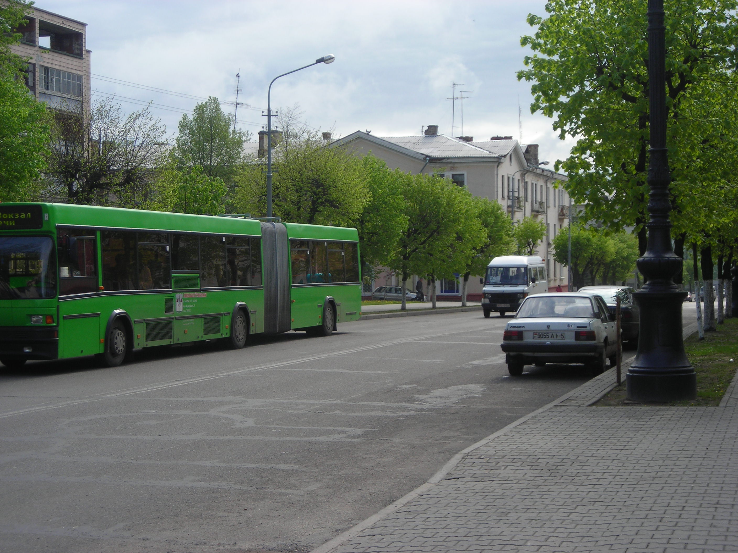 View on one of streets Borisov, Belarus